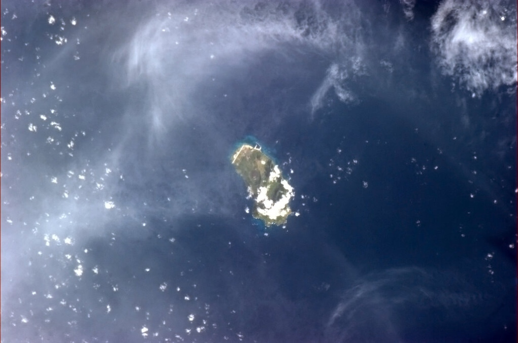 Island of Annobón from satellite